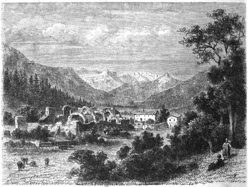 Ruines of the Chartreuse of Durbon.